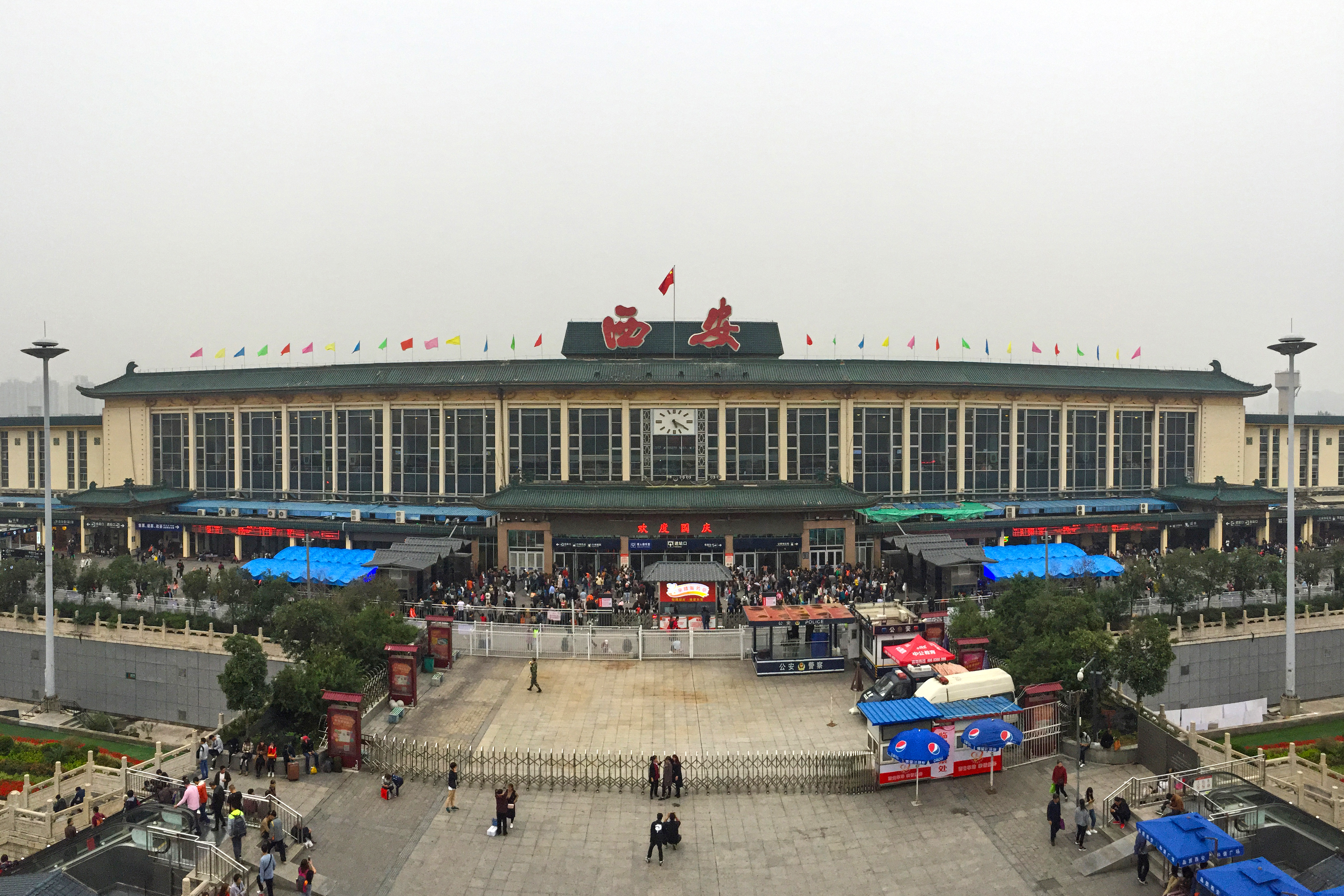 Mianpi Railway Station... Spared no efforts to get a full view on the city wall, quite sorry for the weather.